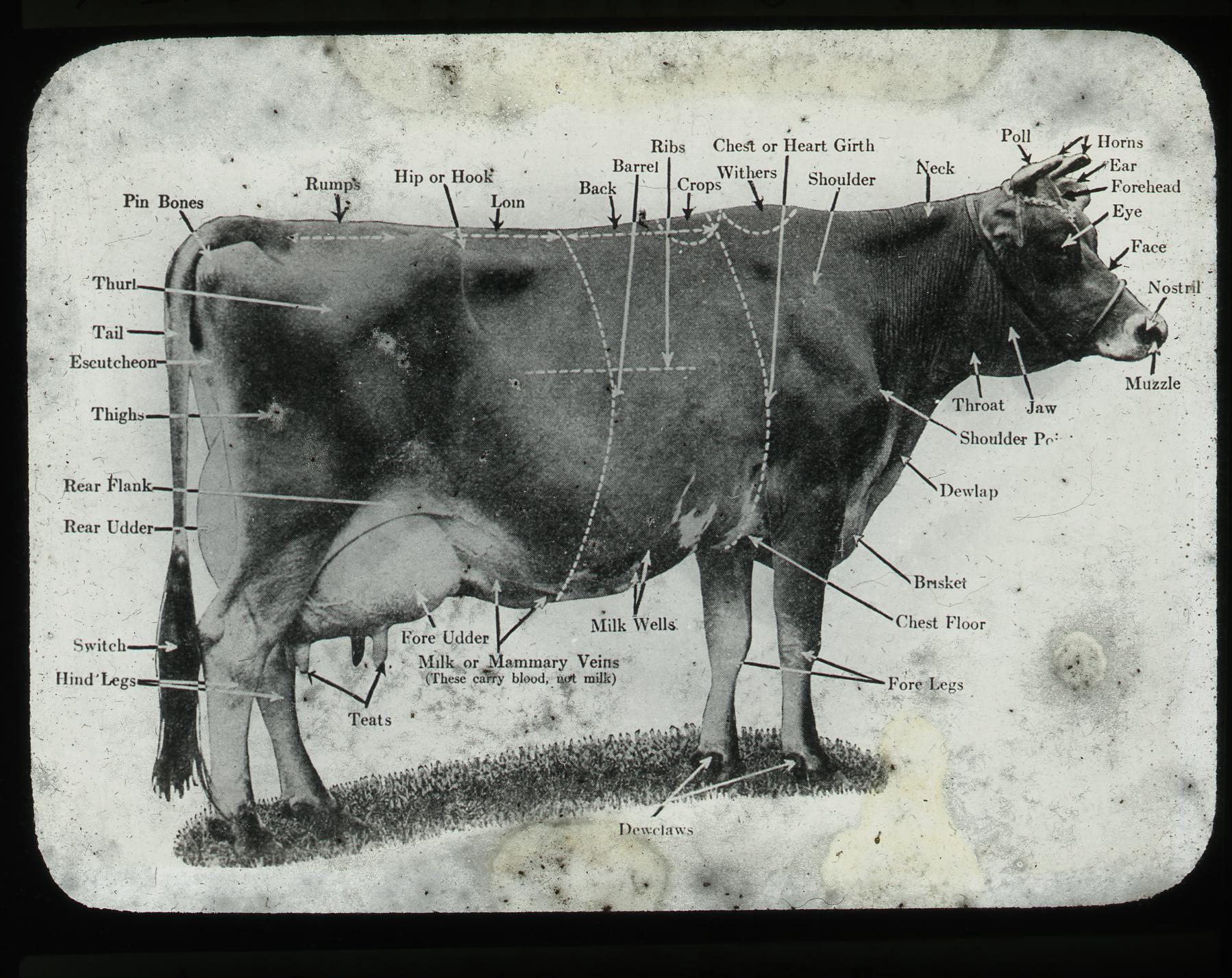 Slide produced by the Province of Ontario Picture Bureau, probably in the 1920s, for use in Ontario schools. Donated to the Community Archives of Belleville and Hastings County by Mike and Sue Mills in October 2015.